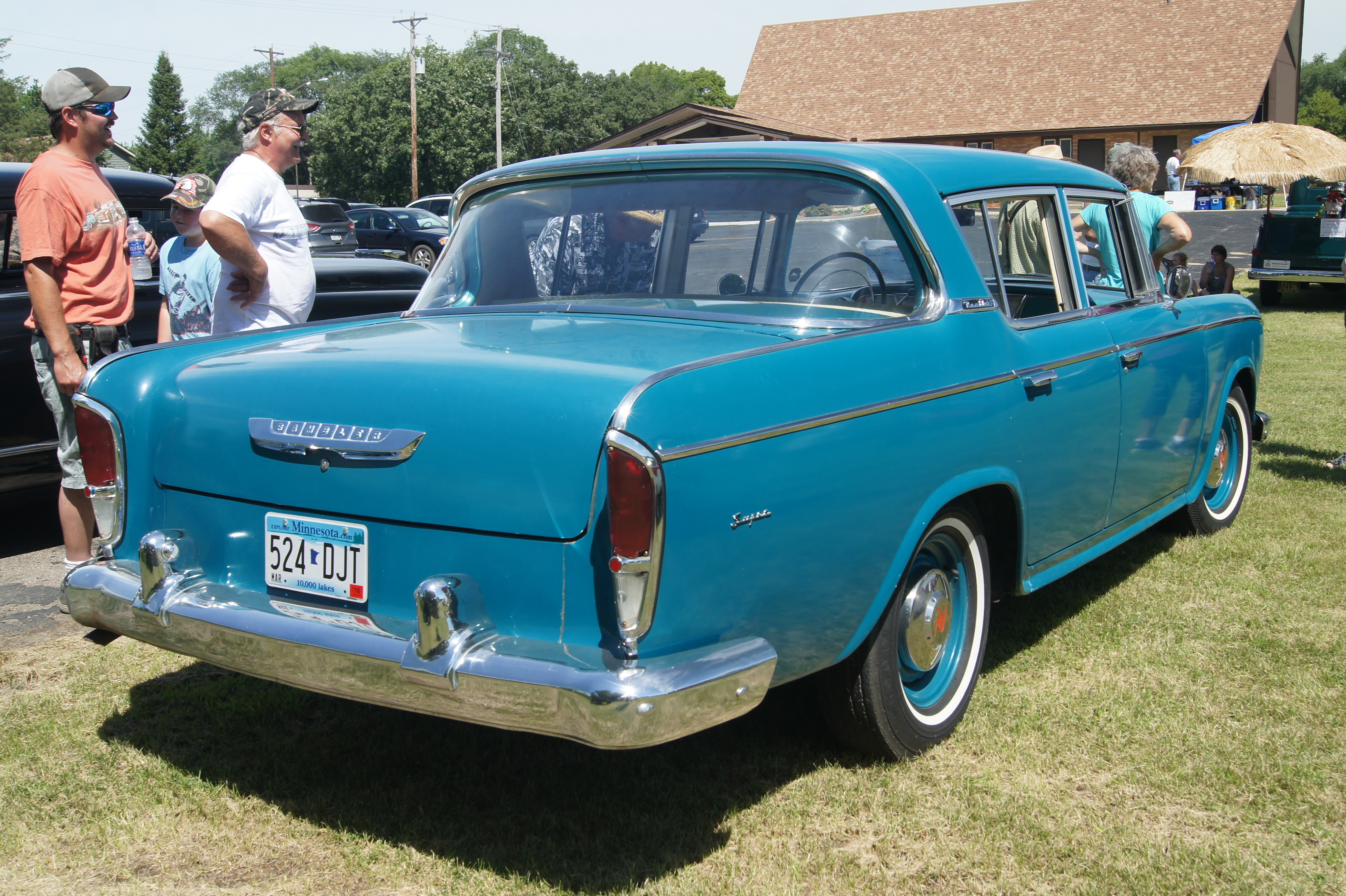 South Haven Days Car Show July 2015 South Haven, Minnesota Click here for more car pictures at my Flickr site.